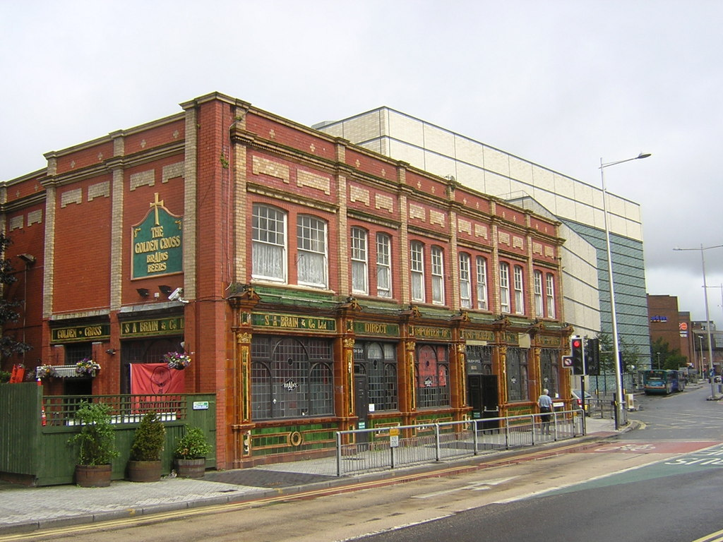 Golden Cross pub, Custom House Street, Cardiff